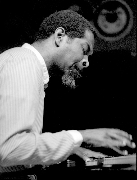 Muhal Richard Abrams at Keystone Korner, San Francisco CA 4/29/79. Photo by Brian McMillen /